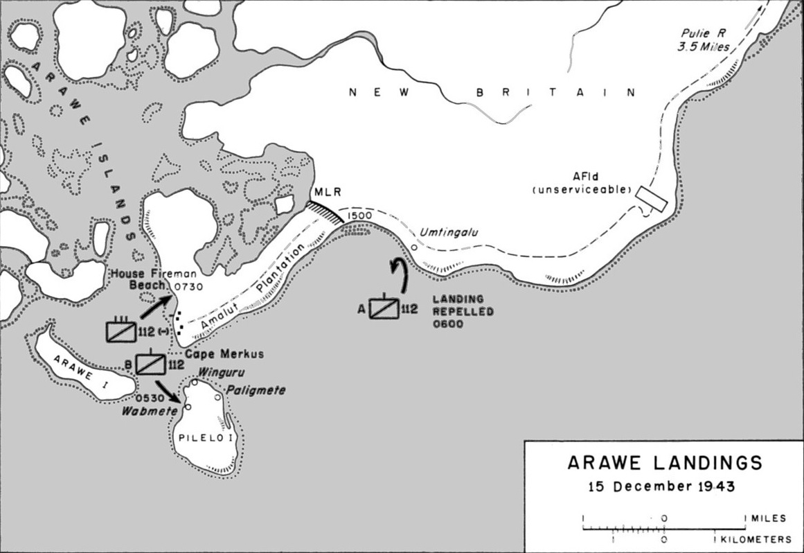 Map of the Allied landings in the Arawe area of New Britain on 15 December 1943